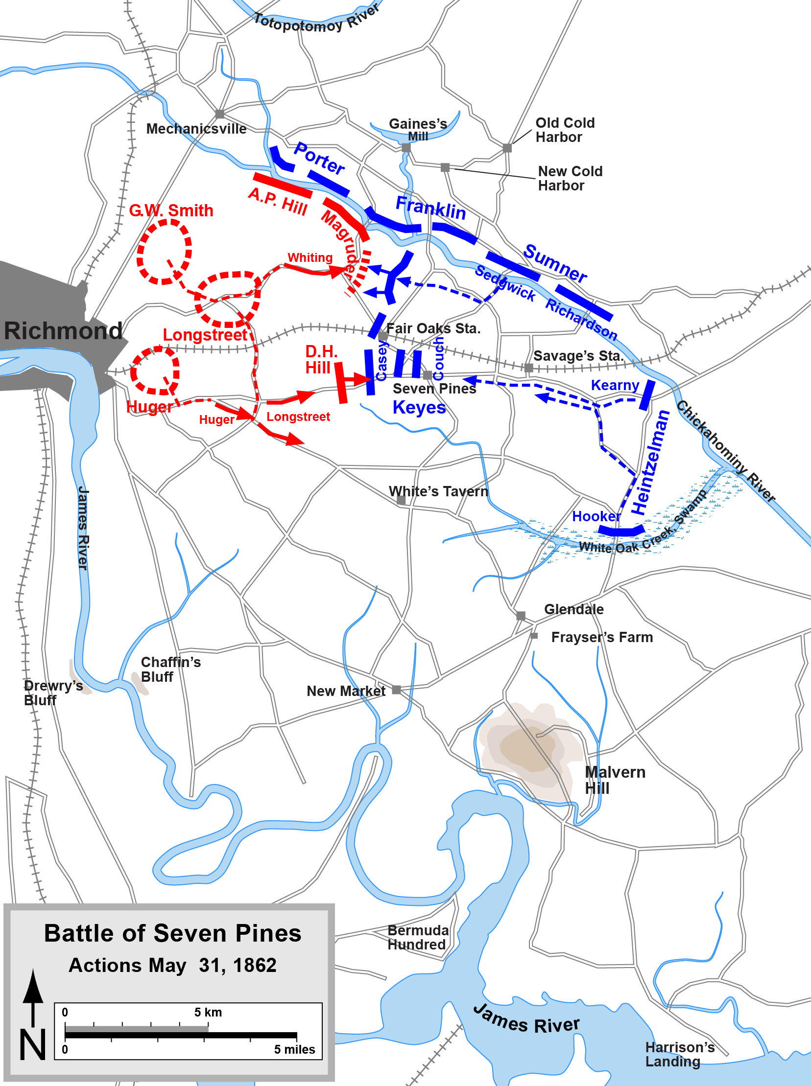 Map of the Battle of Seven Pines of the Peninsula Campaign of the American Civil War. Drawn in Adobe Illustrator CS5 by Hal Jespersen. Graphic source file is available at